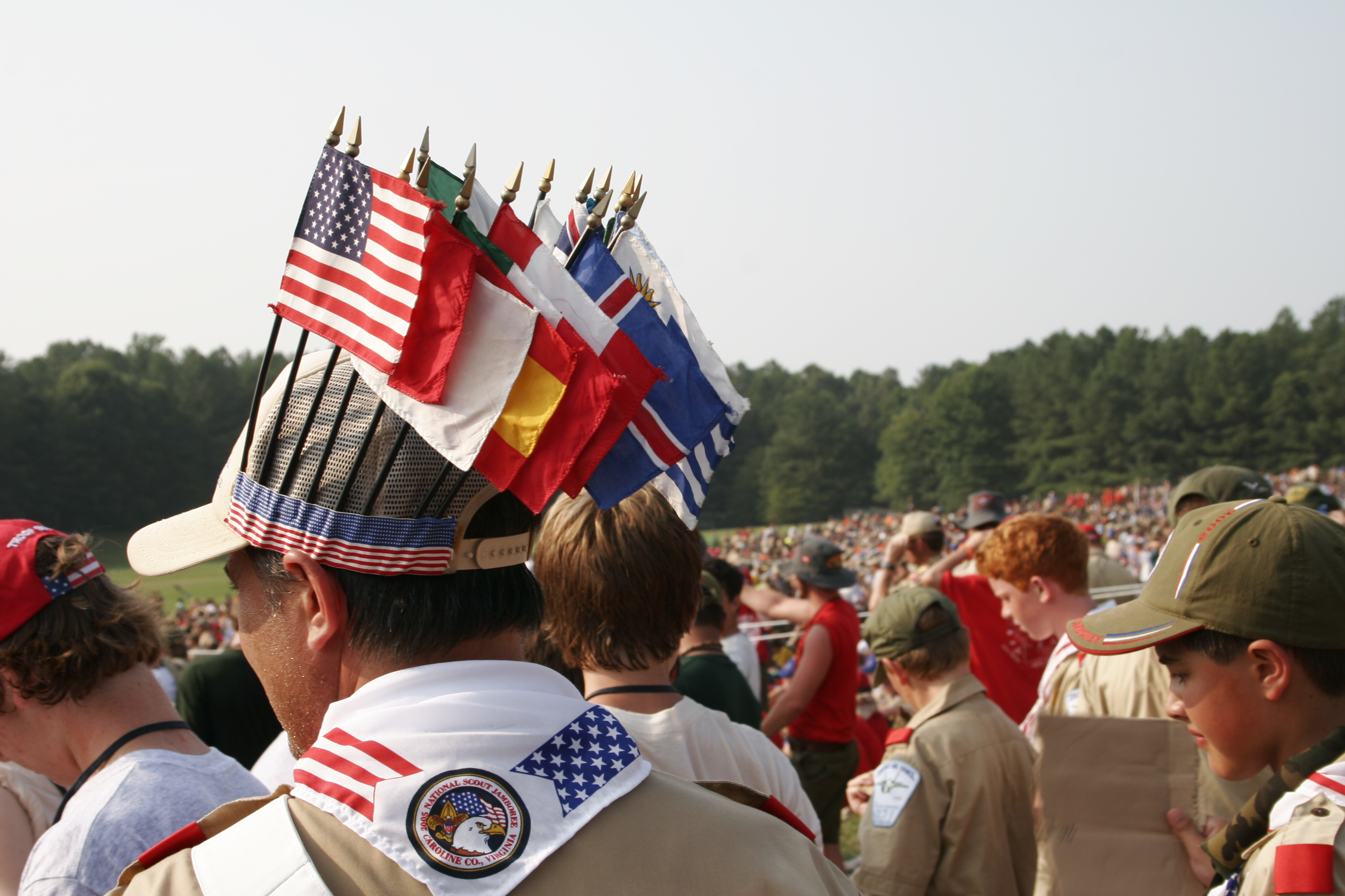 Scouts from around the world participated at the 2005 National Scout Jamborree